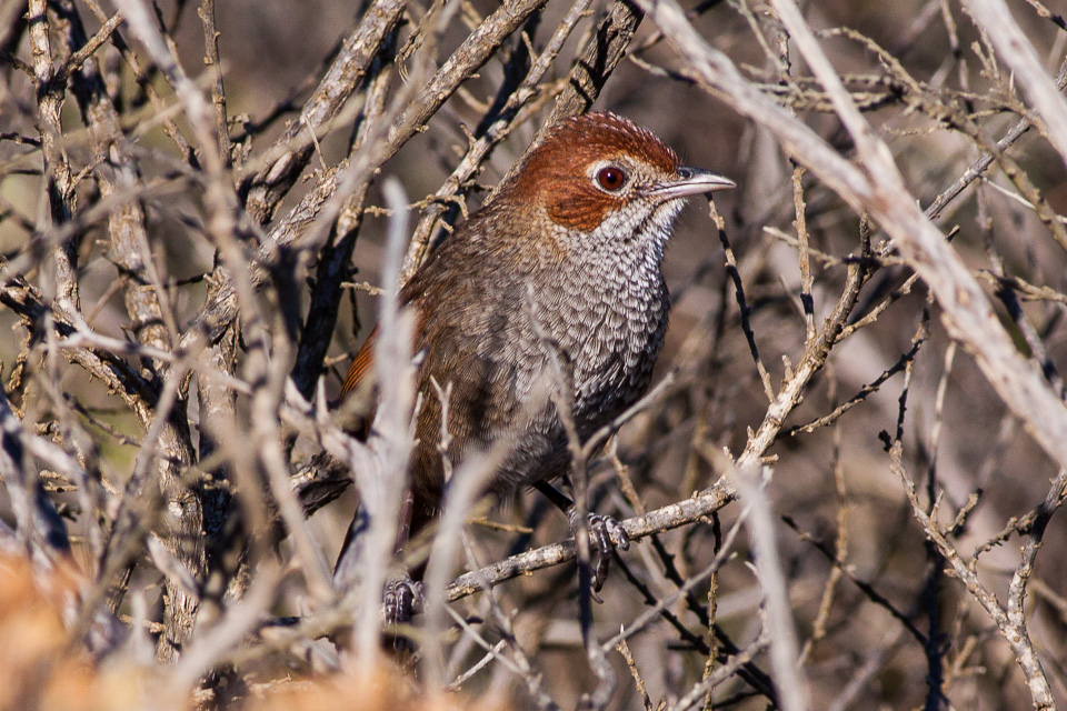 Rufous Bristlebird (Dasyornis broadbenti)